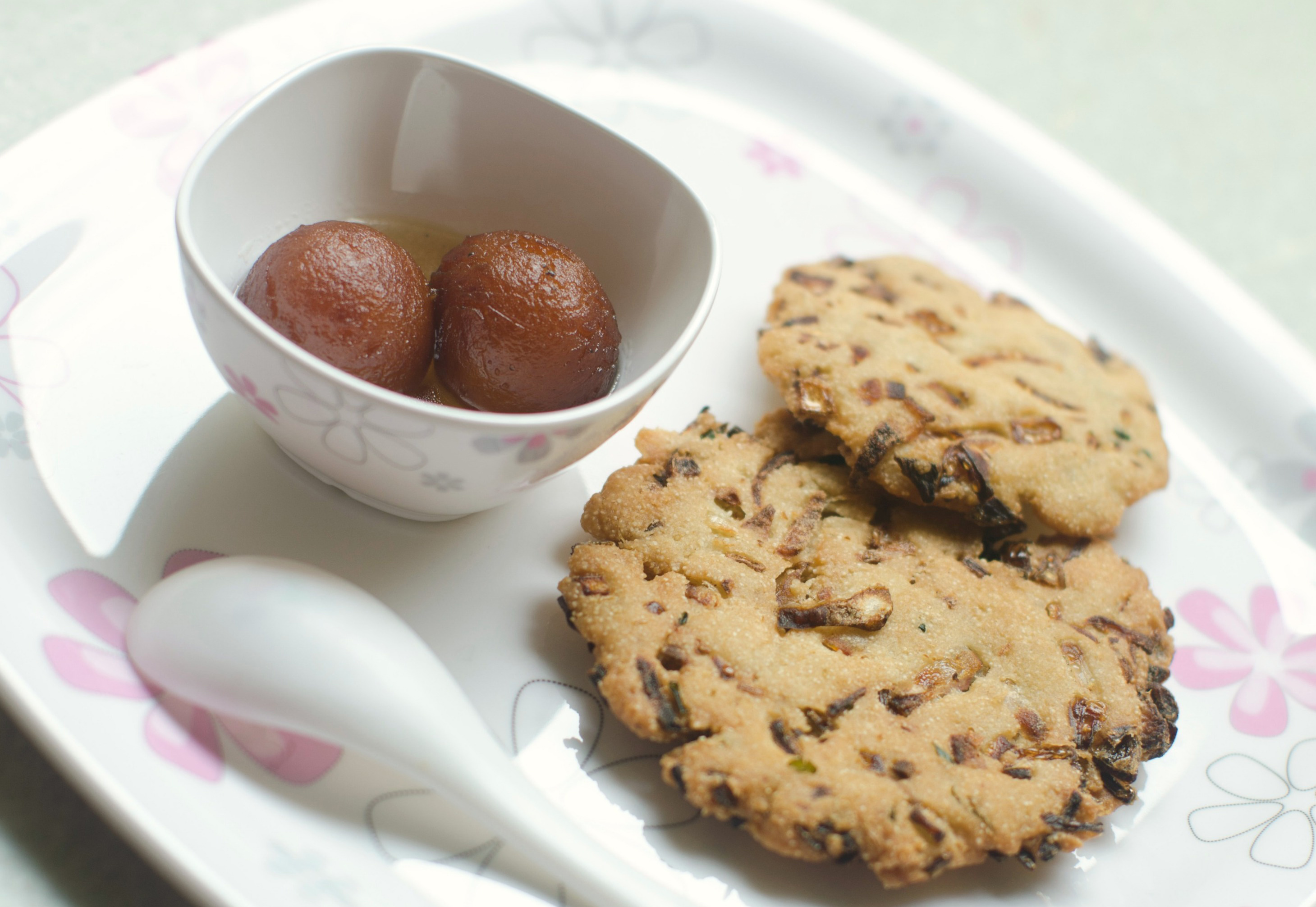 Not a combination that is well heard of, but Maddur vada is notoriously famous for its crispy heavenly taste. Originally made in Maddur town in karnataka, now found across karnataka, hoever everyone who goes my maddur district makes sure to take these famous snacks in bundles! the gulab jamun adds to the taste.